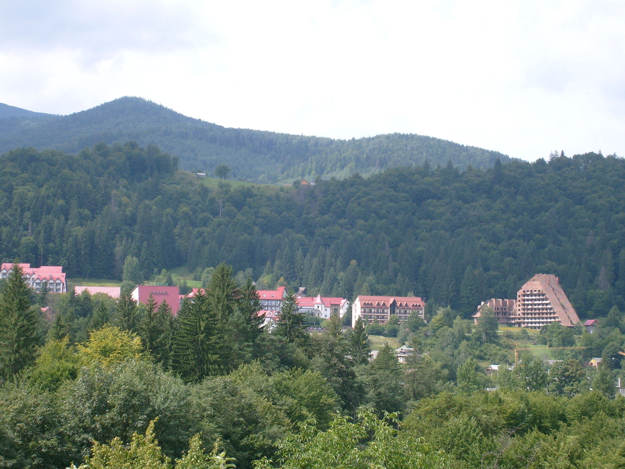 Yaremche